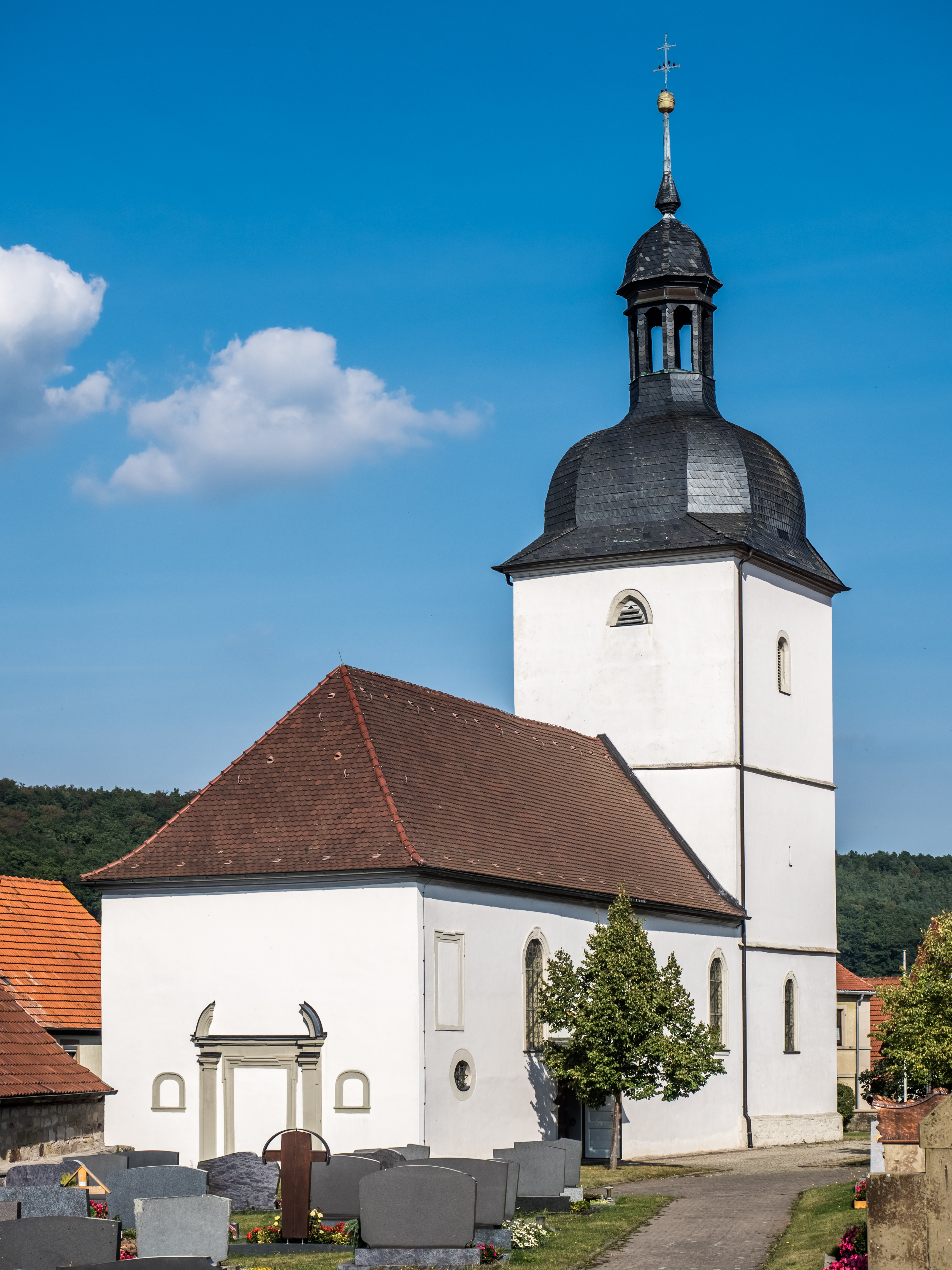 Catholic Church of St. Kilian in Wustviel